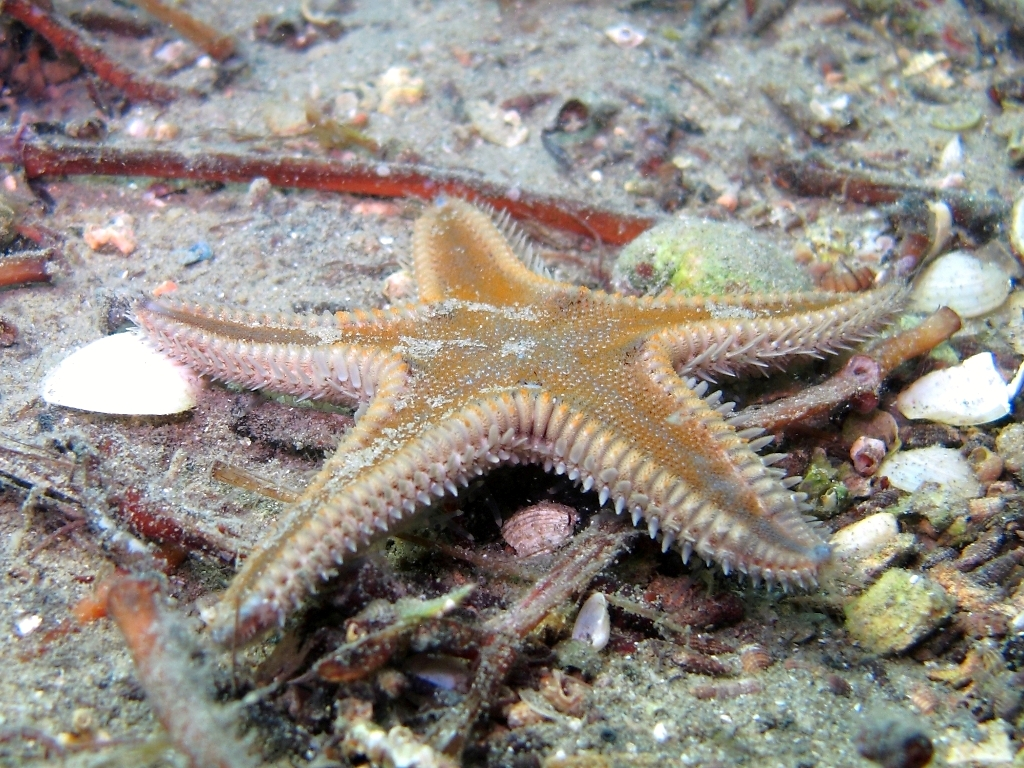 Astropecten spinulosus